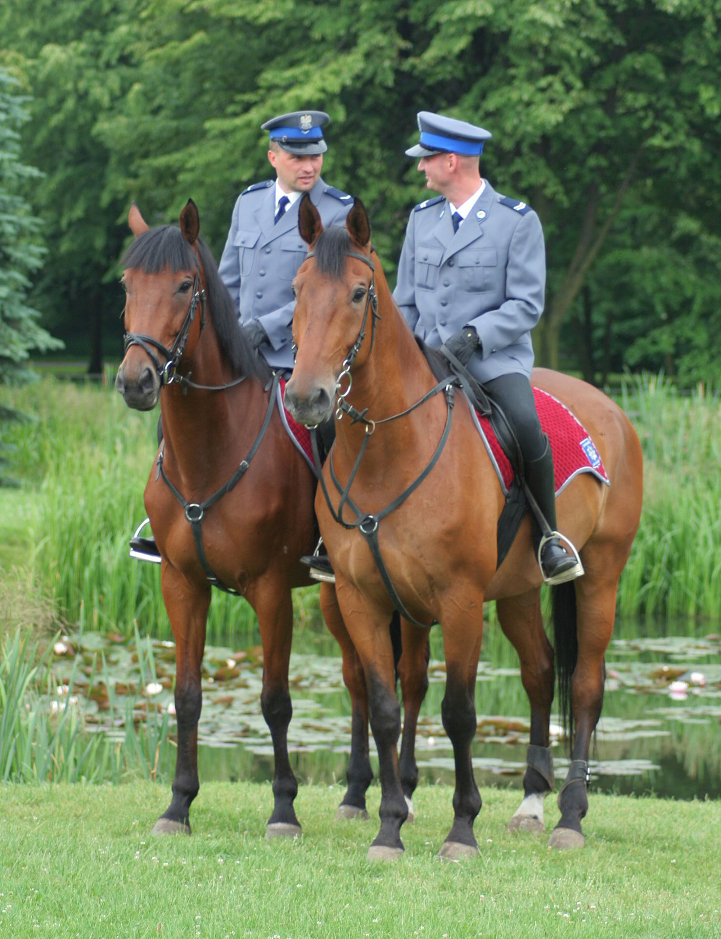 Mounted police in Silesian Central Park in Chorzów.